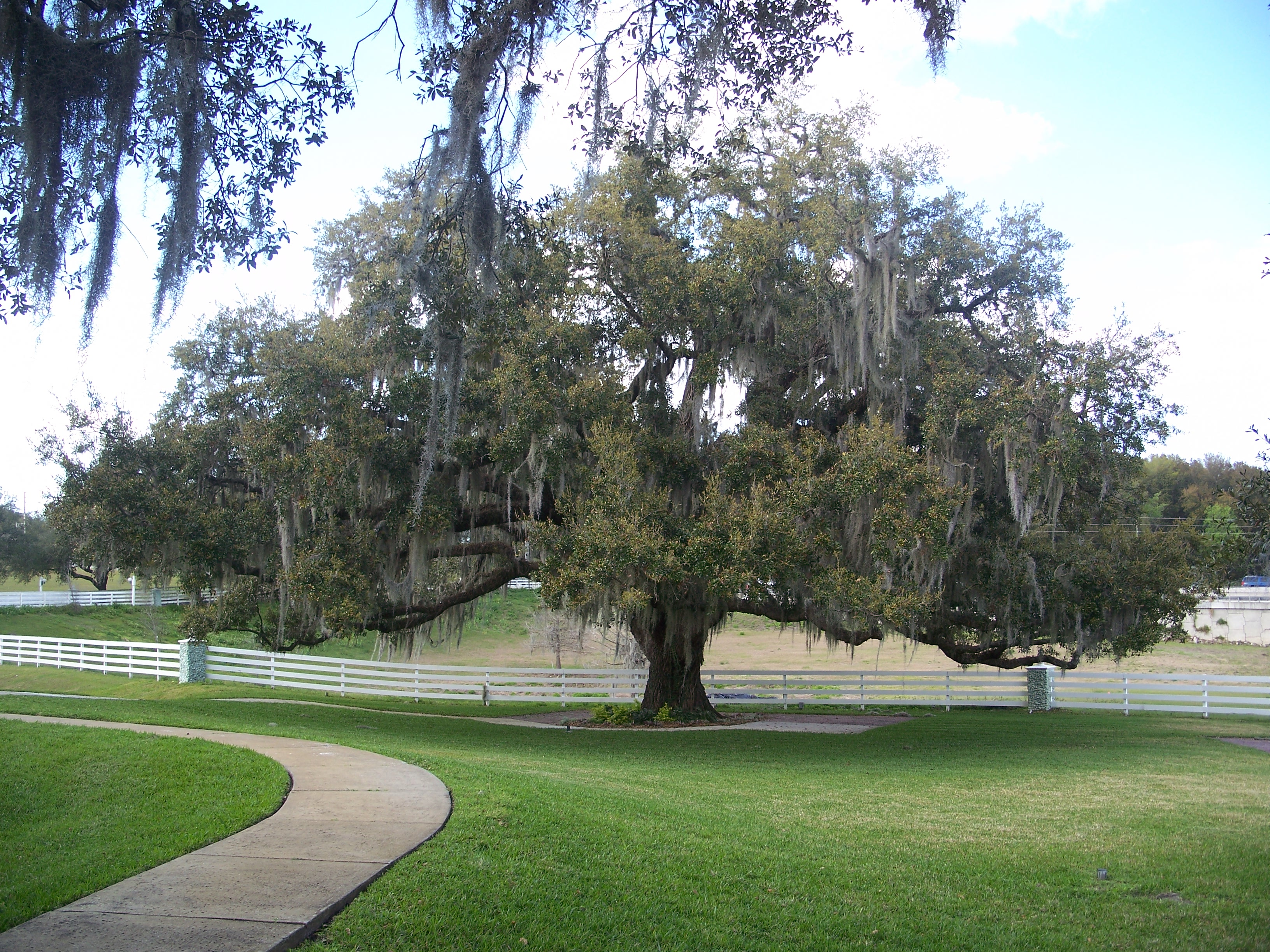 Apopka, Florida: Townsend Plantation. It was built by the Eldredge family in 1903. The McBride family purchased it in the 1940s. After the owner died in 1978, it remained empty for several years. In the 1980s it was purchased by the Townsend family. They moved the house, the other plantation buildings, and even most of the live oaks to their current location in 1985, and renovated the buildings. After a short time it became empty again. The place underwent further renovation in 2004. It's now a restaurant.[1][2] Live oak. Probably one of those transplanted from the original plantation.